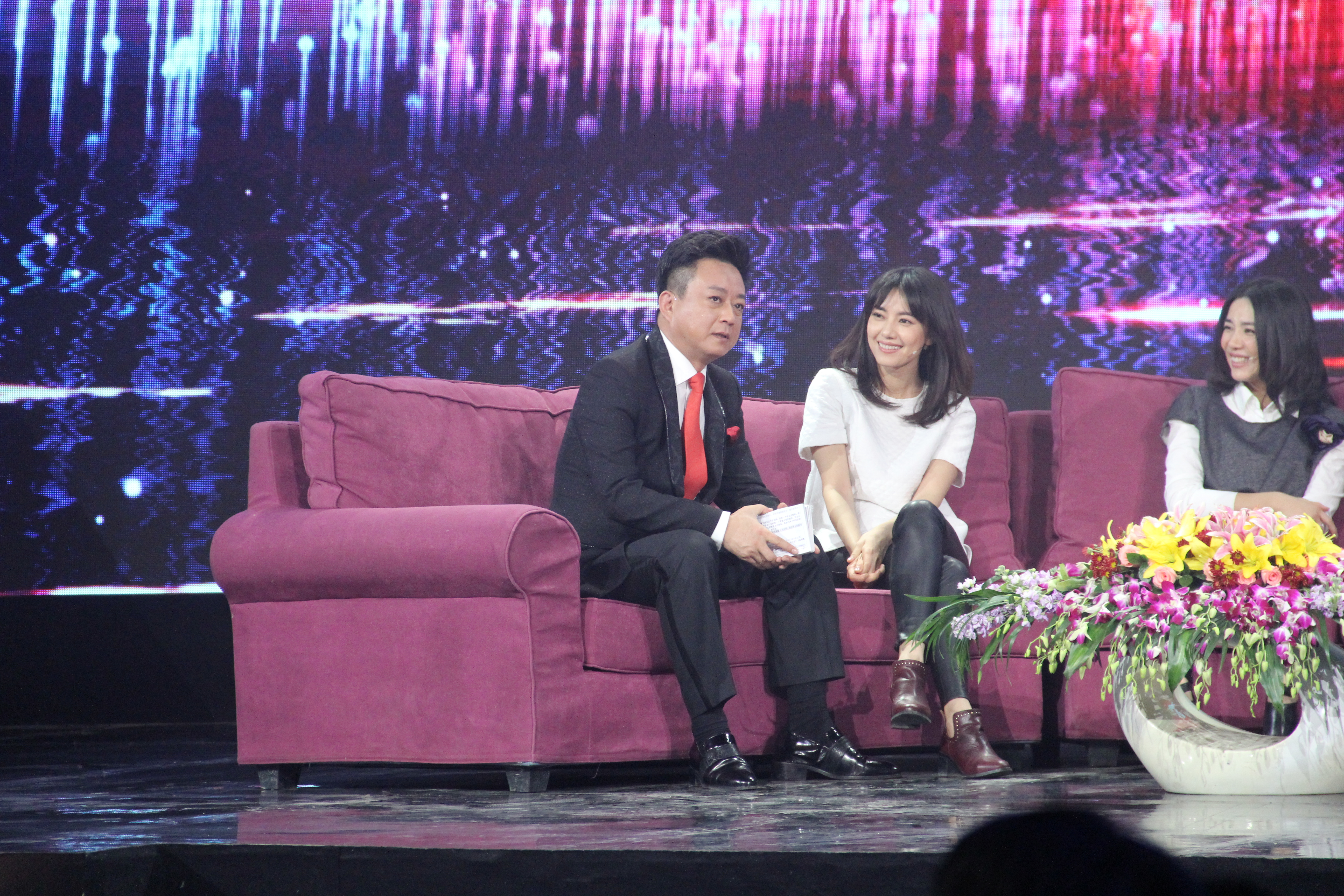 This photo was taken during the filming of Chinese talk show Art Life. In this episode, cast and director of popular TV drama We Let Married were invited.中文（中国大陆）: 这张图片于《艺术人生》的片场拍摄，这集邀请了《咱们结婚吧》的演员和导演。